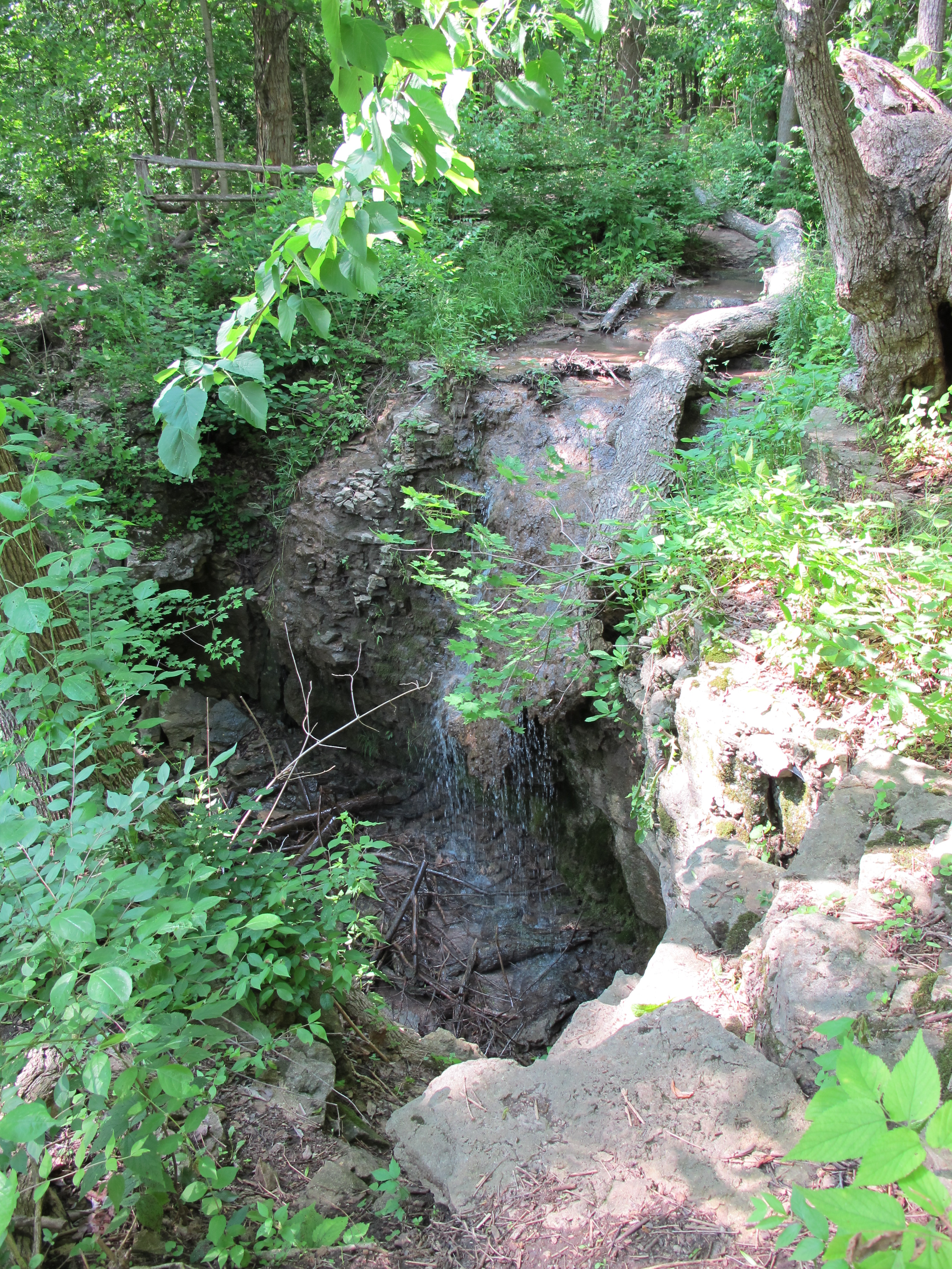 Patty Falls at Englewood MetroPark in Englewood, Ohio.